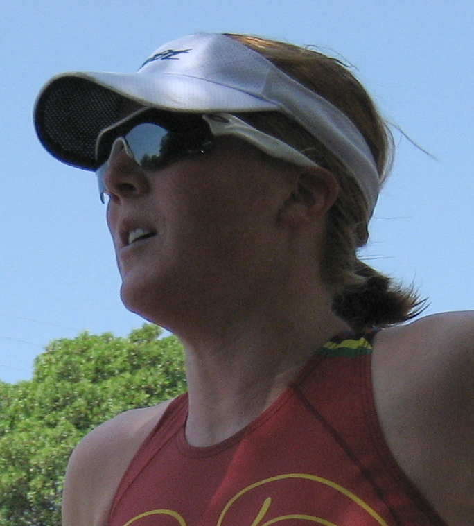 Samantha McGlone